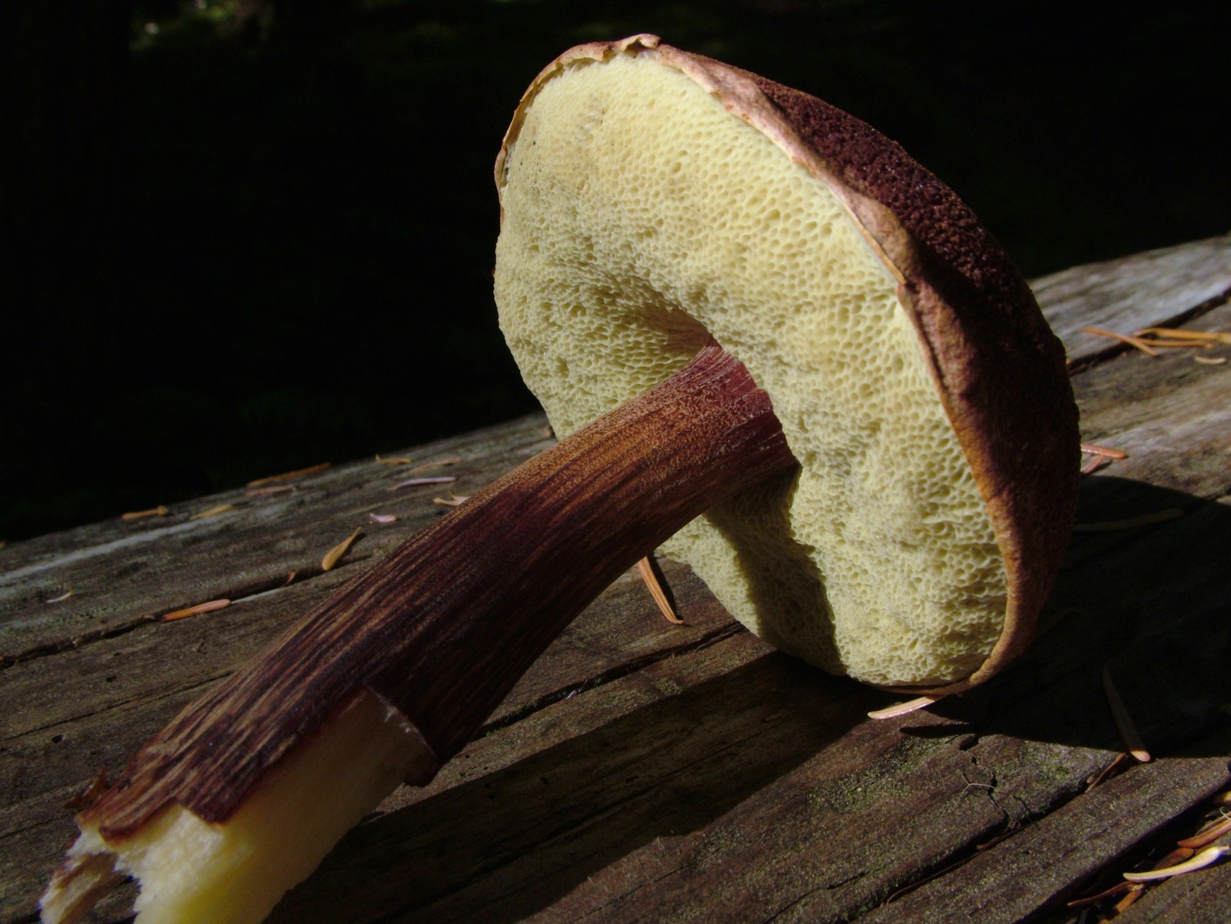 The admirable bolete (Boletus mirabilis) mushroom, collected along the Royal Creek trail, Olympic National Park, Washington, USA. Forest type was western hemlock (Tsuga heterophylla) and Douglas-fir (Pseudotsuga menziesii).